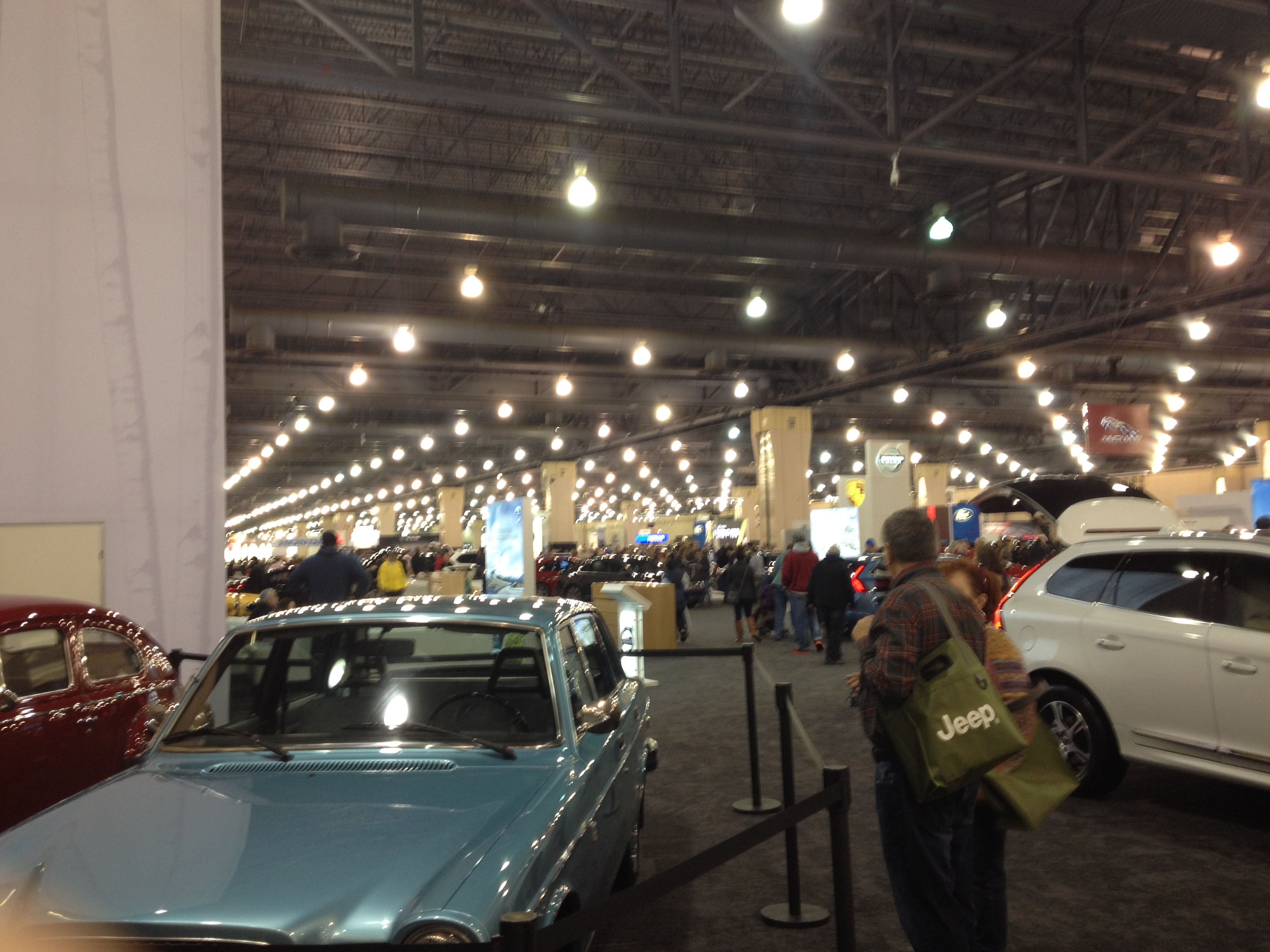 The 2014 Philadelphia Auto Show at the Pennsylvania Convention Center.